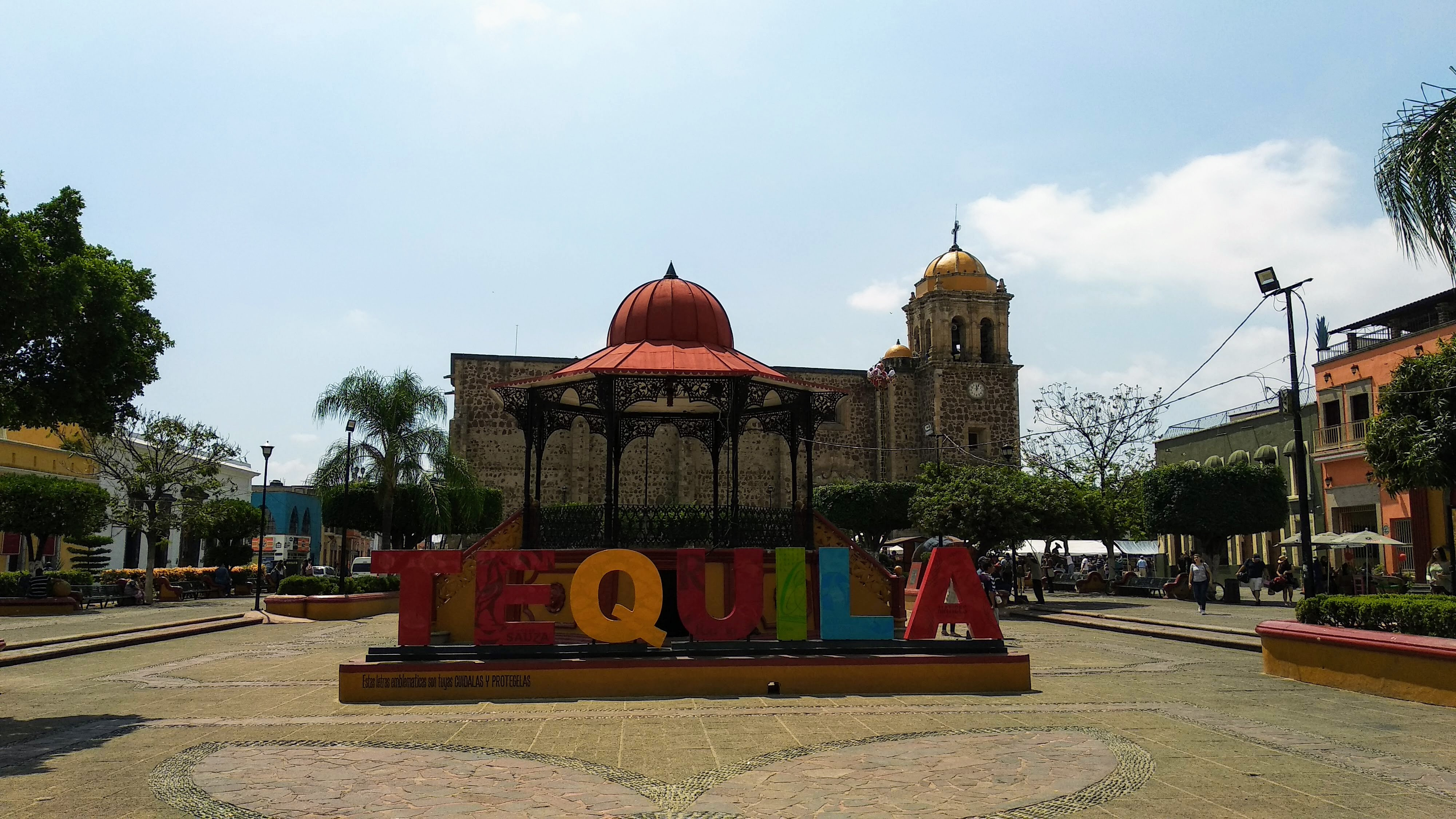 Photo taken from the side of the Tequila's Basilica, with the Main Pavilion